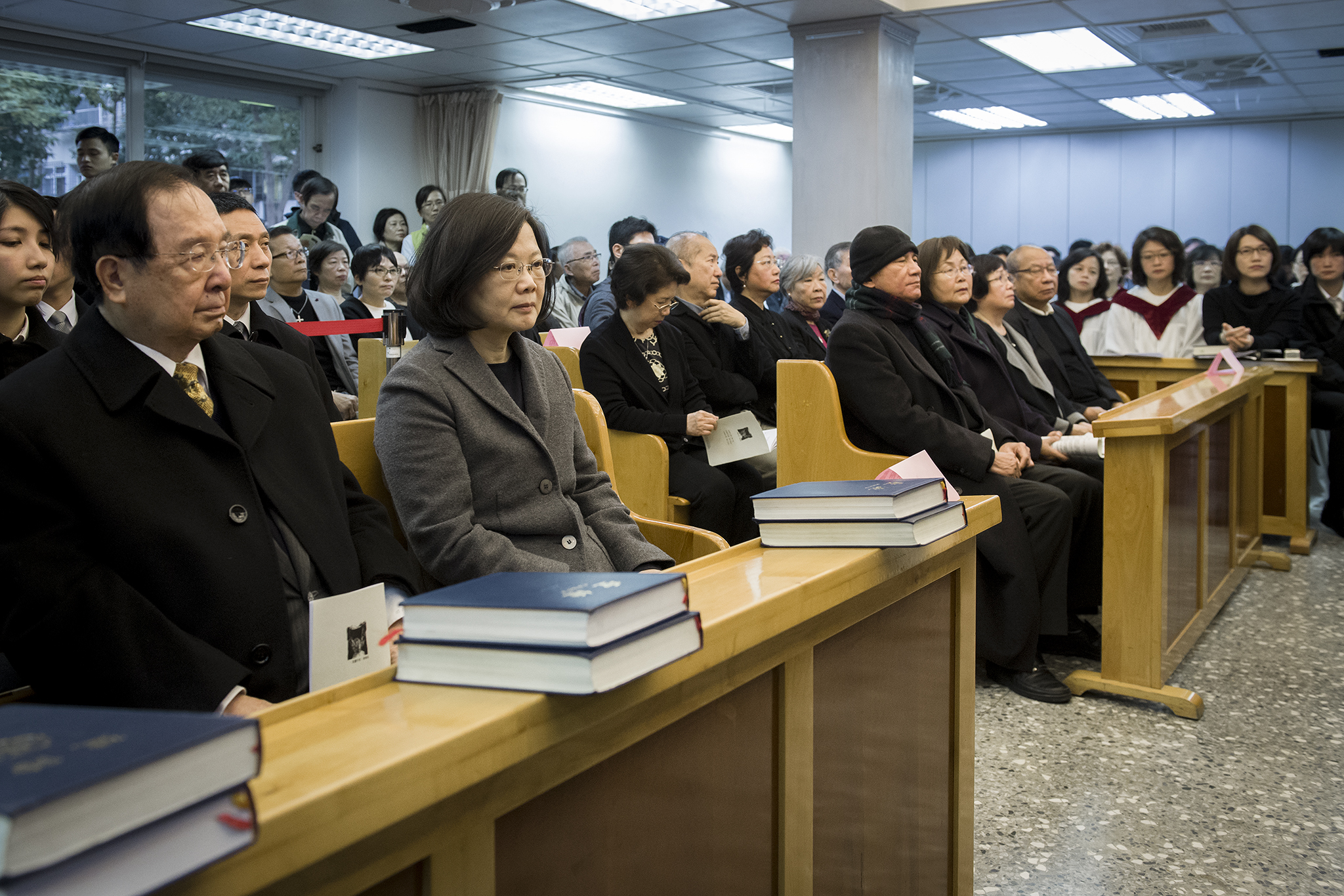 授權方式及範圍：中華民國總統府│政府網站資料開放宣告 Authorization Method & Scope: Office of the President, Republic of China (Taiwan) | Government Website Open Information Announcement